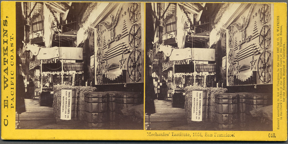 Stereograph by Carleton Watkins: Mechanics' Institute, 1864, San Francisco – The photo shows the interior of the Mechanics' Institute's industrial fair pavilion in 1864.